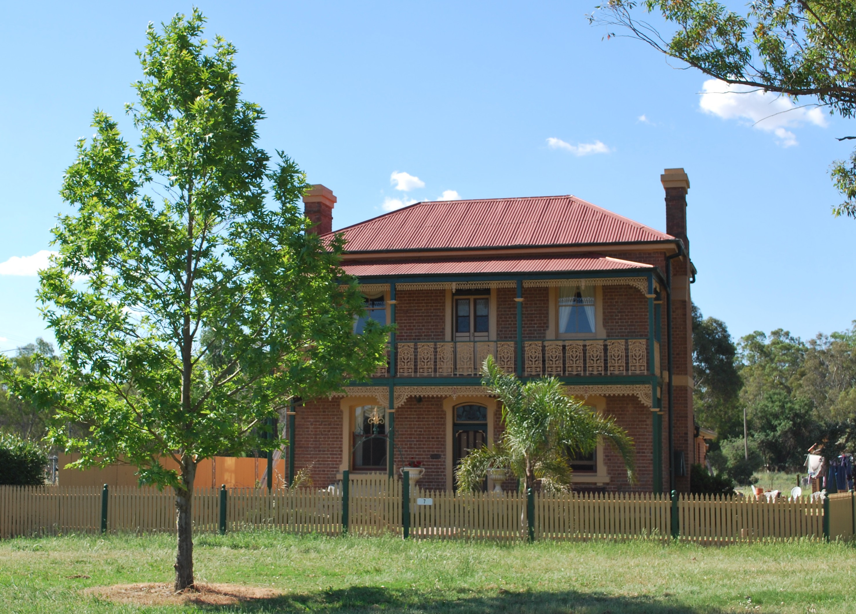 Station masters house at Gerogery, New South Wales